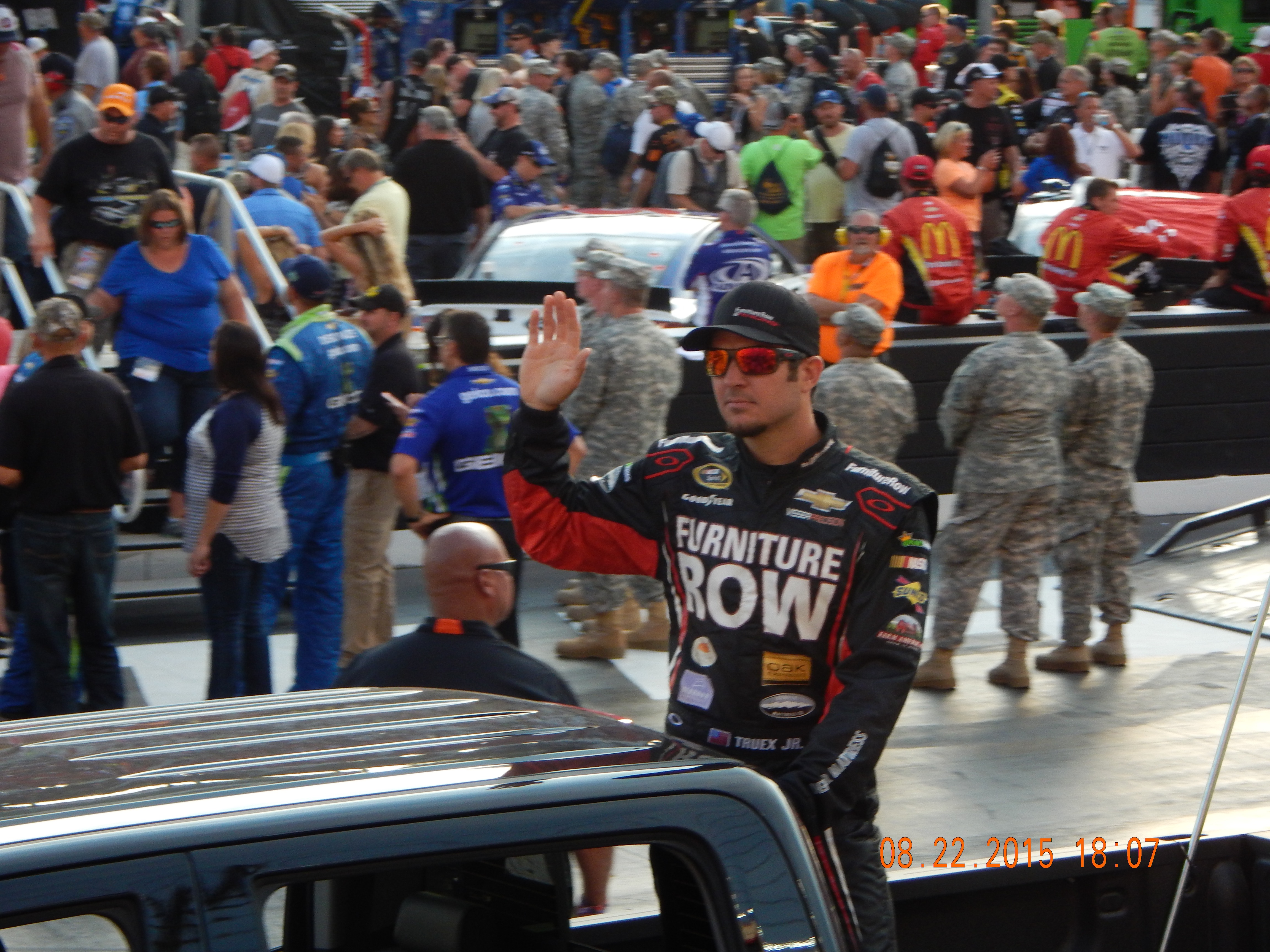 Martin Truex, Jr. being introduced at Bristol Motor Speedway for the Irwin Tools Night Race.